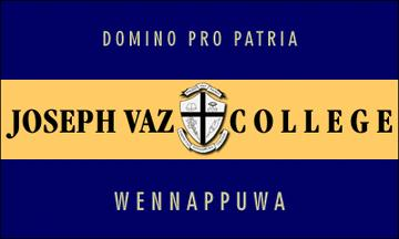 our pride